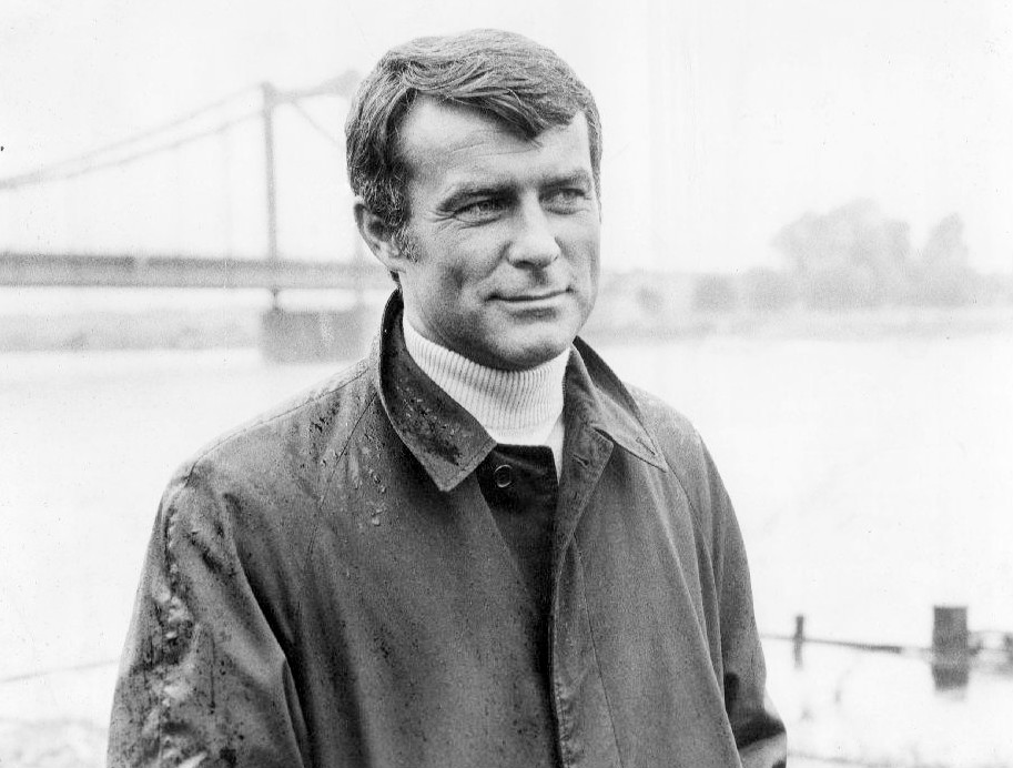 Publicity photo of Robert Conrad from the television program The Men: Assignment Vienna.